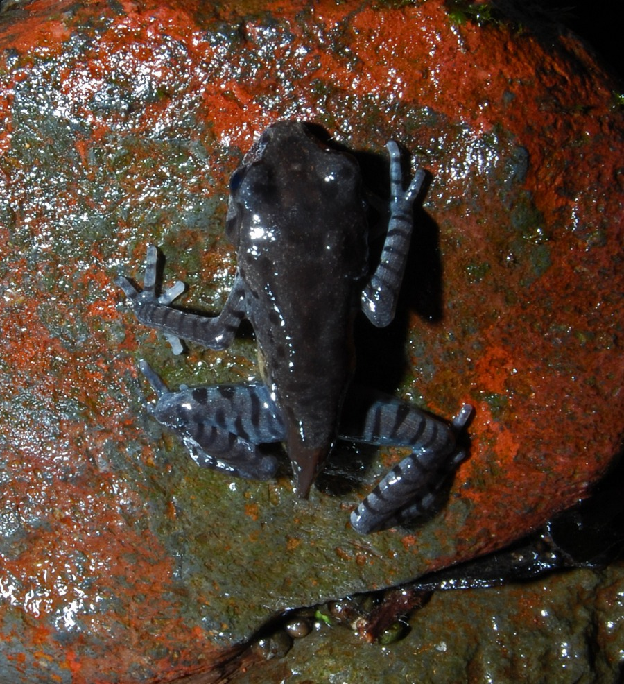 Leptobrachium hasseltii, tailed froglet. From Ciapus leutik river, Calobak, Bogor, West Java, Indonesia